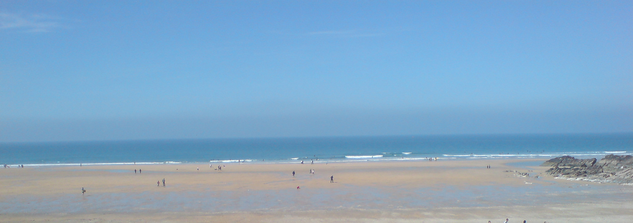 Author: Jamsta